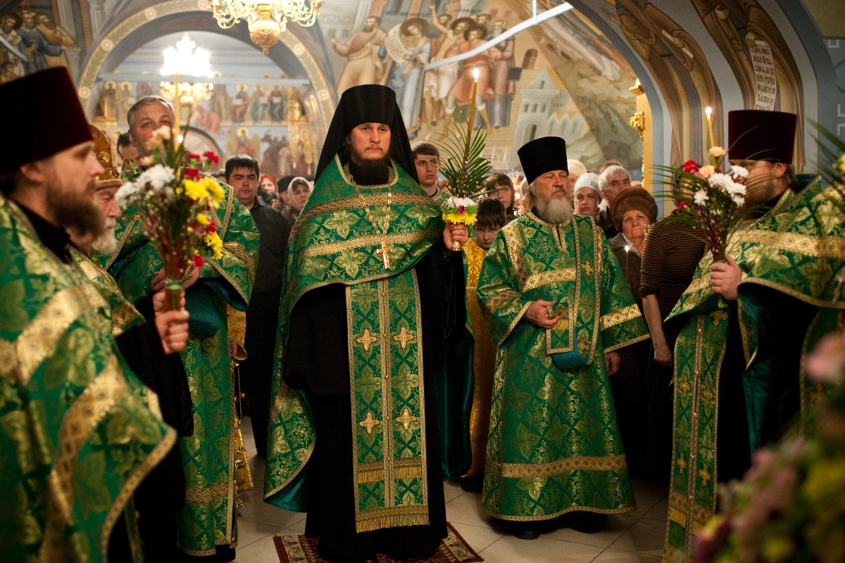 Vigil service. Entry into Jerusalem. 23 March 2010.